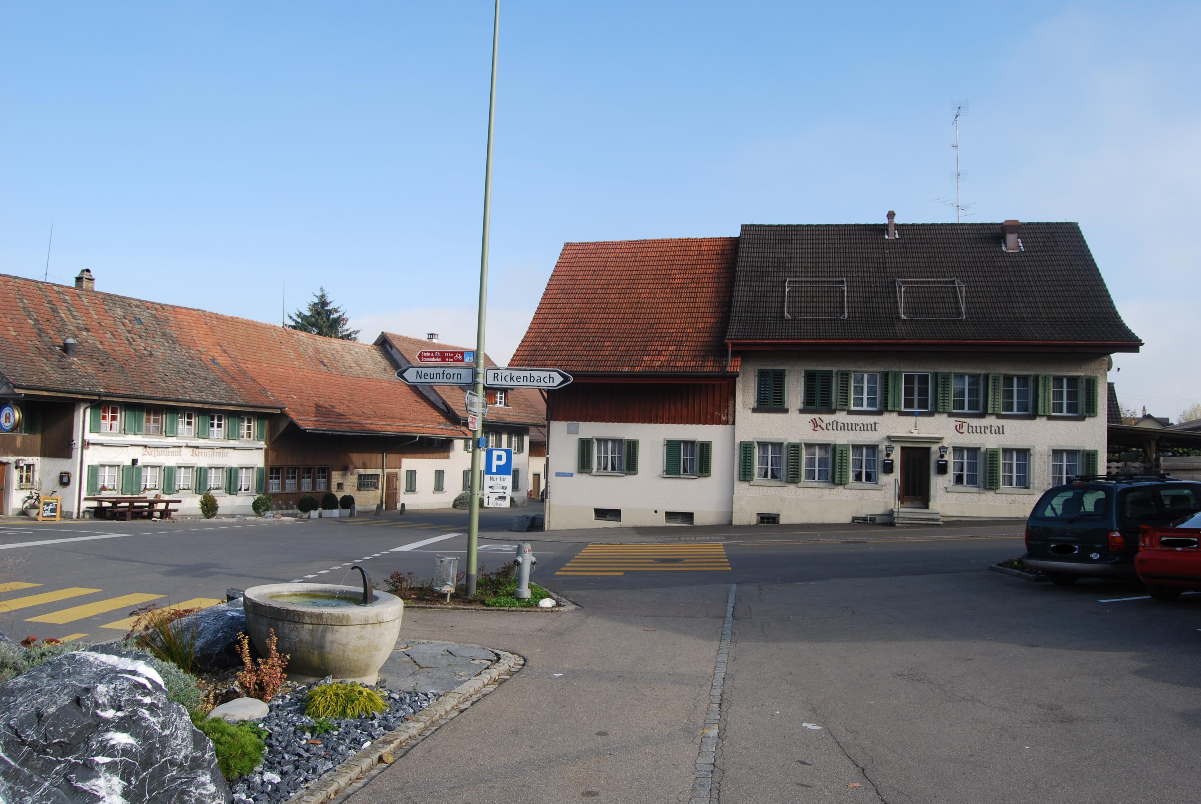 Altikon, canton of Zürich, SwitzerlandEsperanto: Altikon, Kantono Zuriko, Svislando